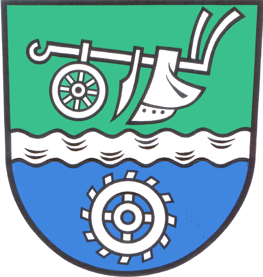 Coat of Arms of Nausnitz First upload in de-wp: Schumi-cb (20:46, 17. Mär. 2006)